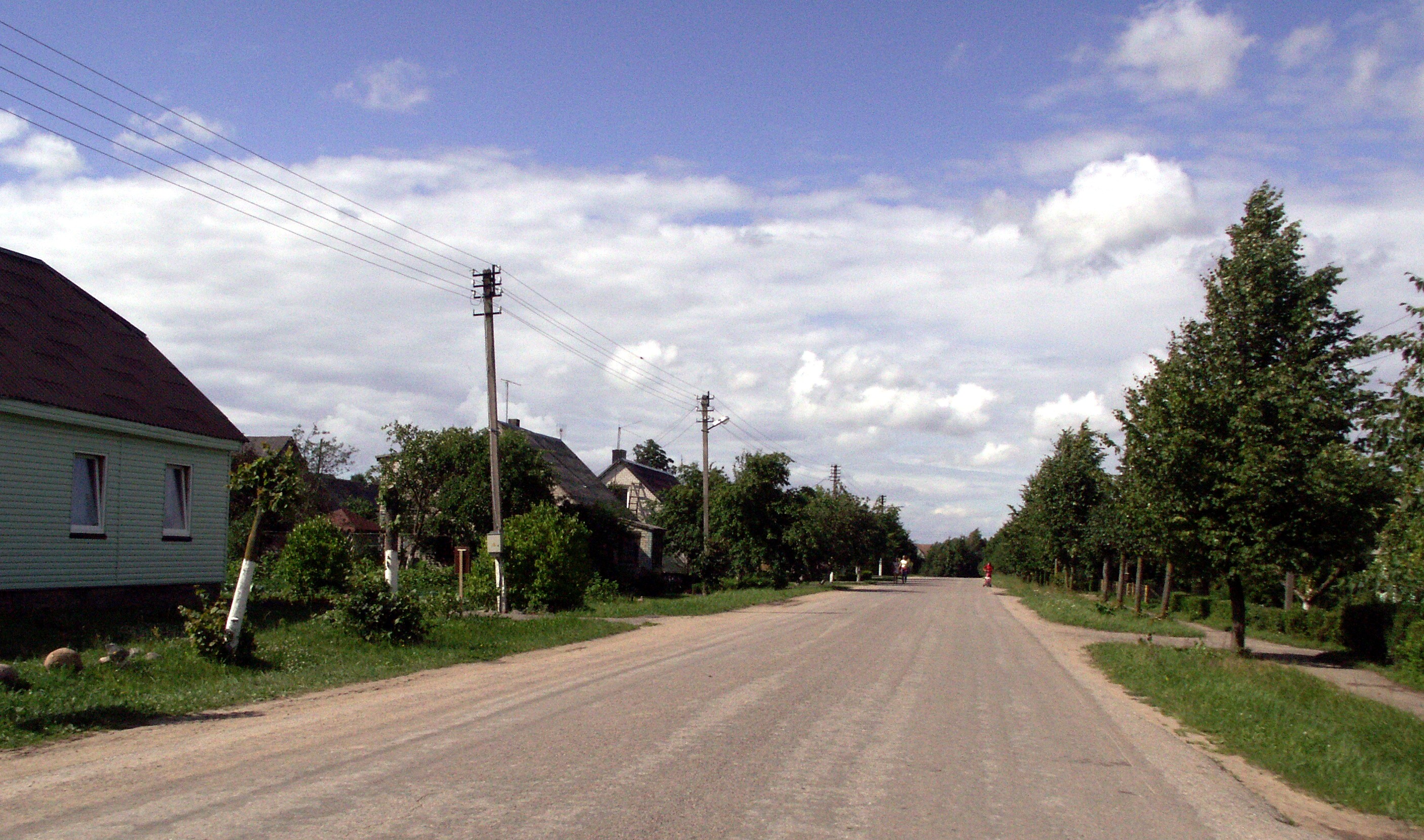 Laugalis, Kelmė district, Lithuania